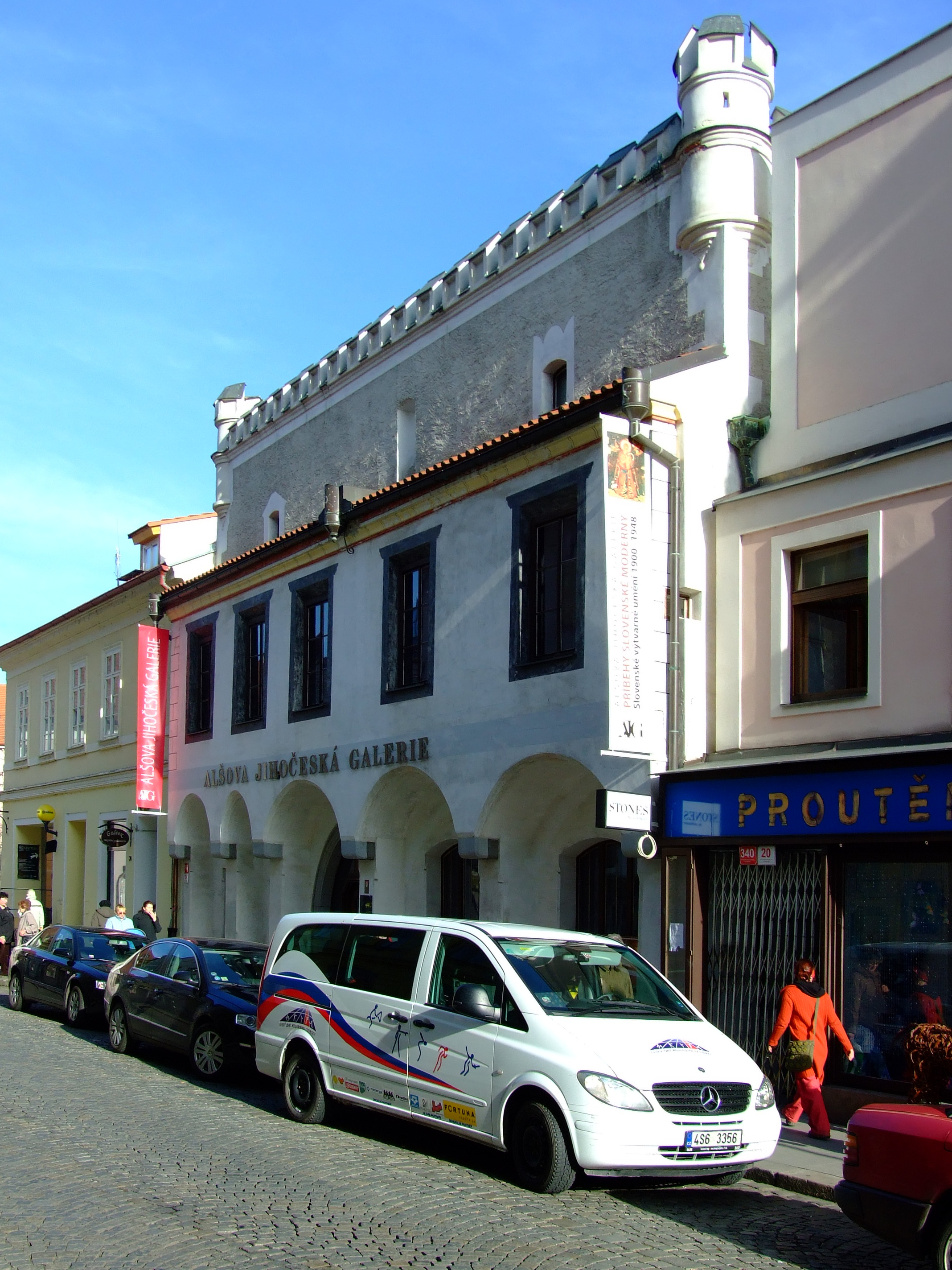 Wortner House, seat of Aleš South-Bohemian Gallery in České Budějovice, Czech Republic